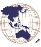 Seal of The Bureau of East Asian and Pacific Affairs